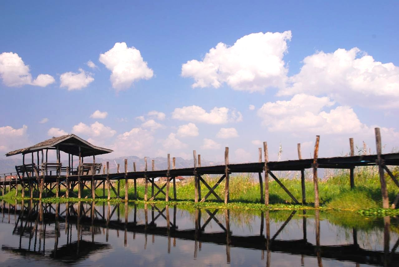 Wooden bridge connecting islands